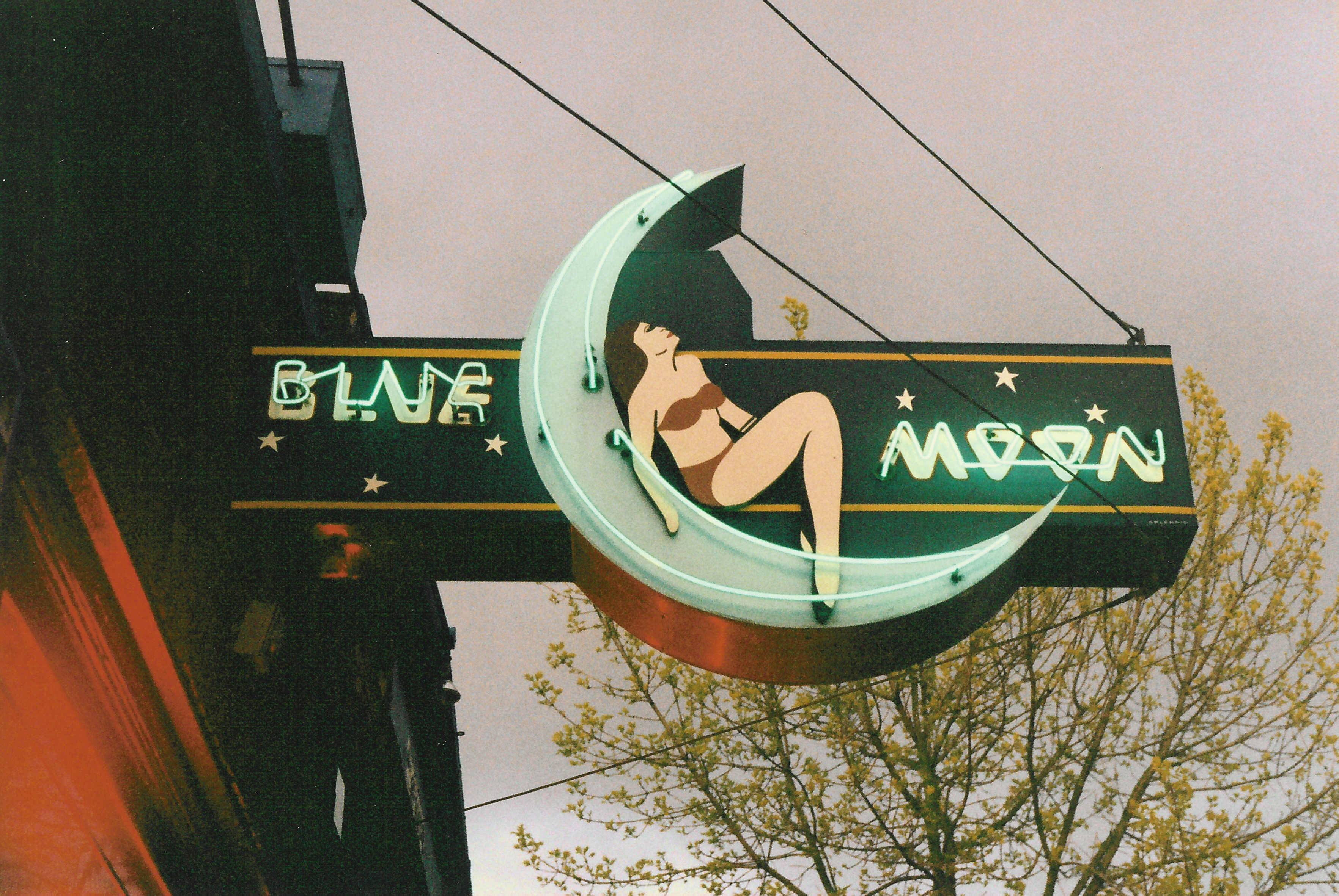 Main sign of the Blue Moon Tavern, University District, Seattle, Washington, 1993. This sign is now inside; the replacement dates from the 1990s, is smaller and the woman is differently posed.